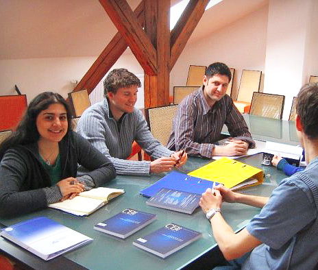 The CEJISS Administrative Board meeting